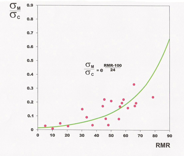 Shows the relationship between rock mass strength and RMR